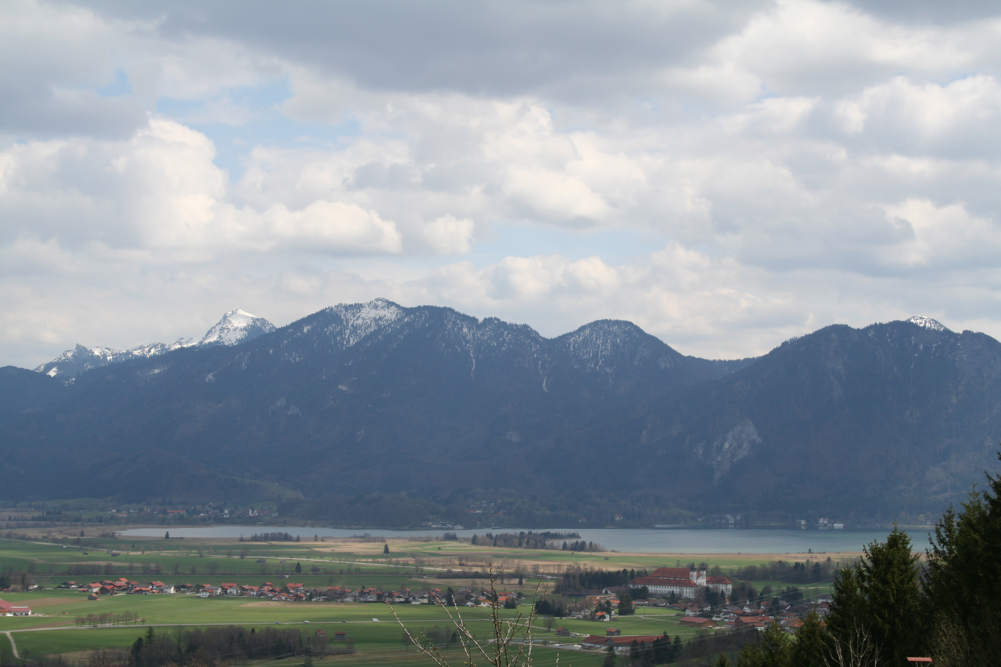 Kochelsee